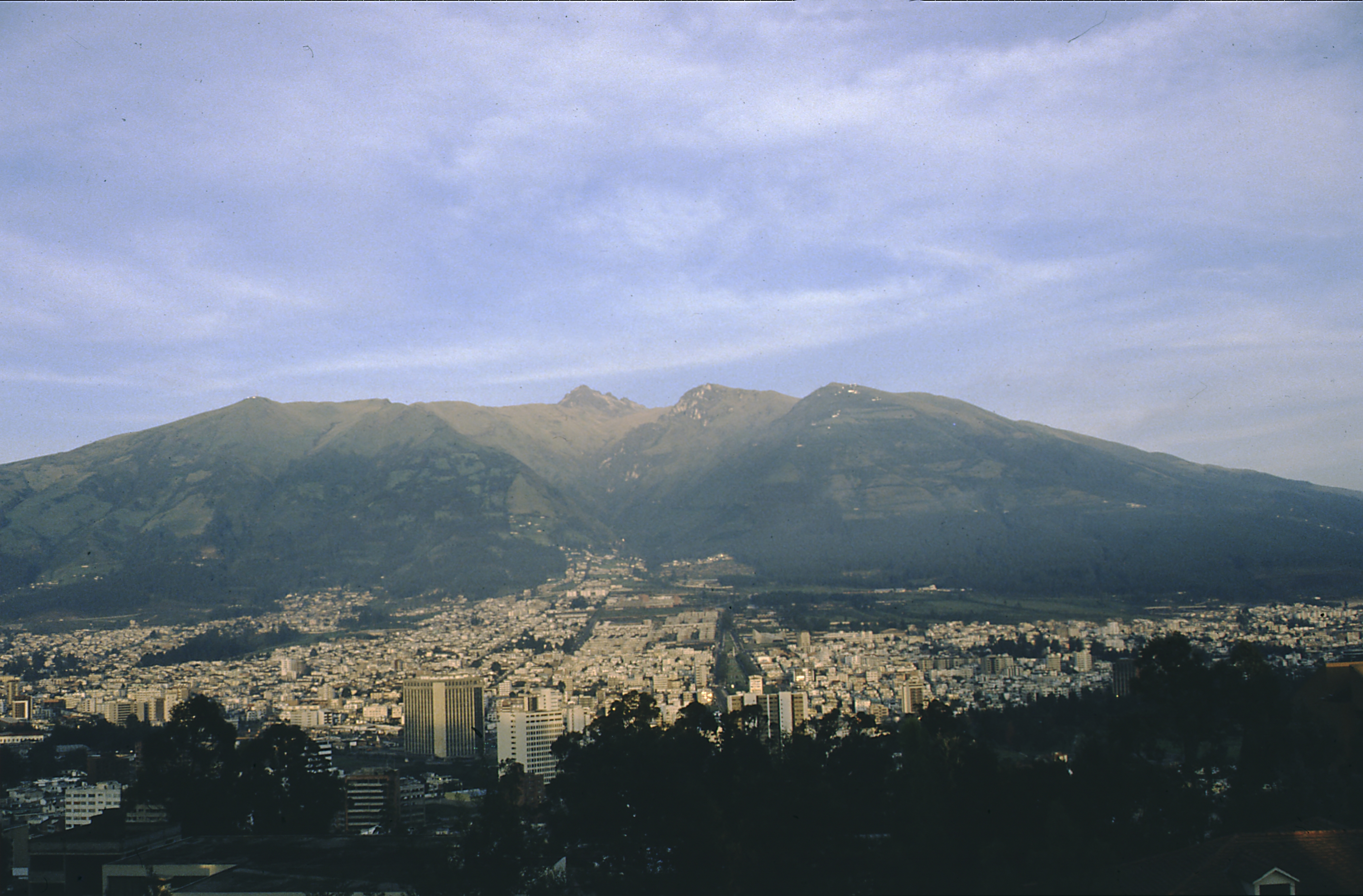 This photo has been scanned with a Reflecta DigitDia 6000 image scanner.